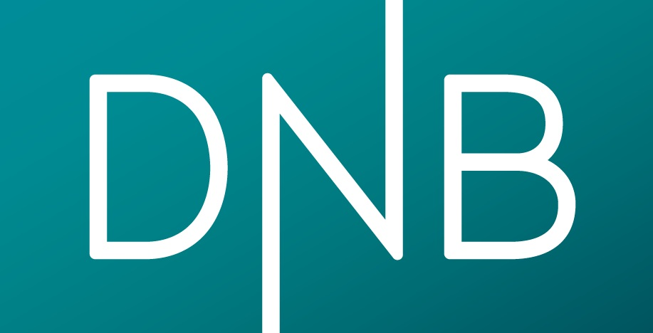 DNB logo